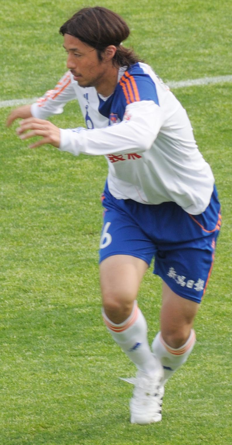 Mitsuru Nagata Albirex Niigata cropped from DSC_4389